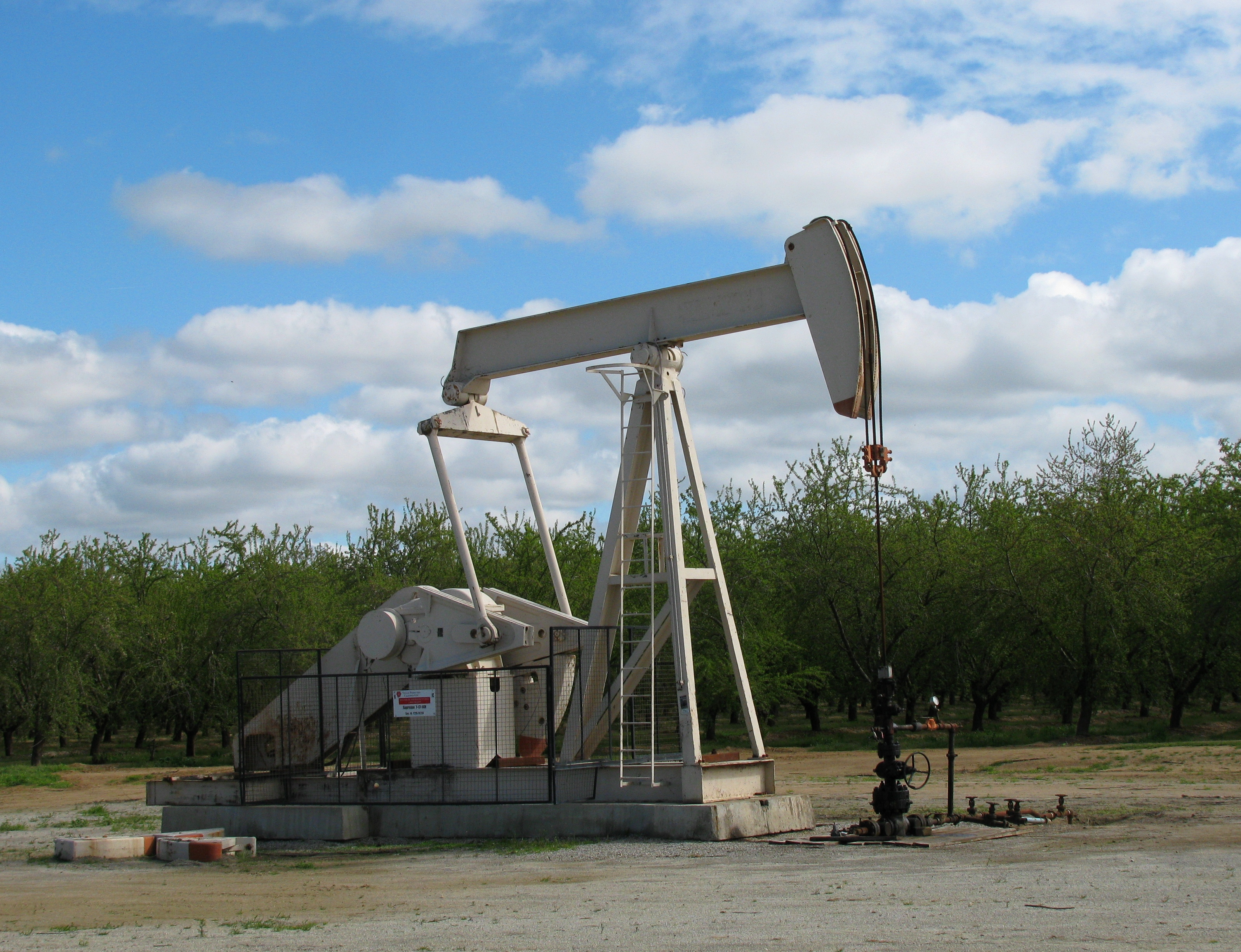 Oil well on the Semitropic field, surrounded by an almond (?) orchard; Well 7-17-14N, photo by self today 3/13/10, GFDL/equiv